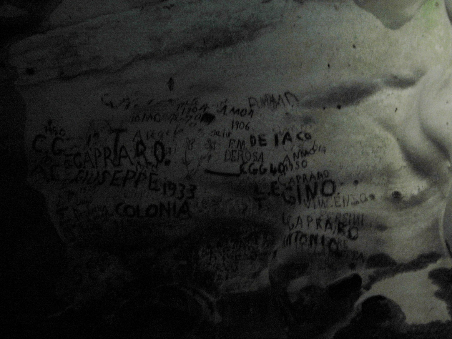 Wall of the crypt, or Duomo, of the Cave "Zinzulusa" in Castro, Apulia. The names and dates were written with the bat guano in the 1940s by workers who cleaned the cave, which was covered by 7 meters of solid guano.